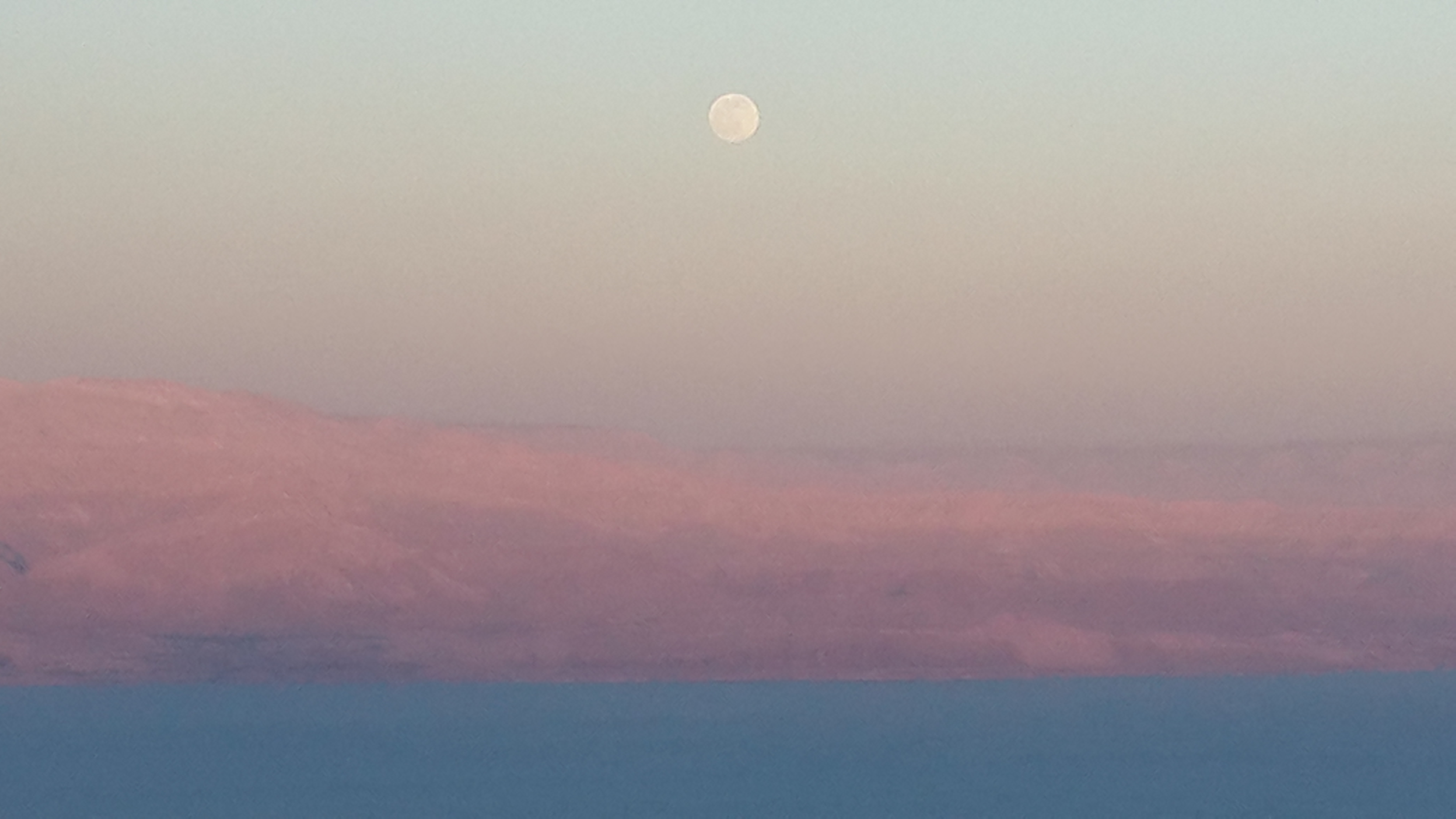 Full moon over Dead Sea.